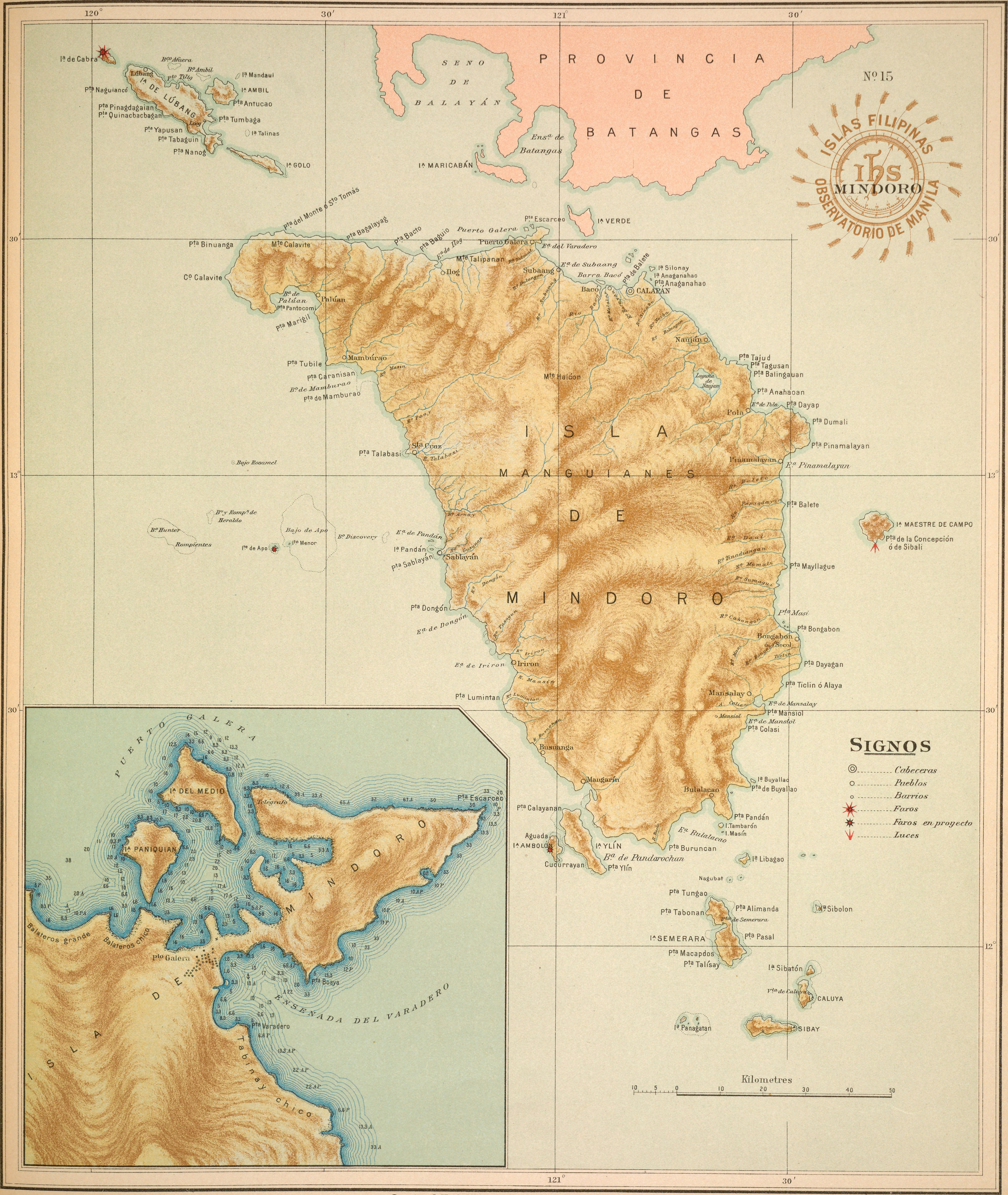 Title: Atlas of the Philippine Islands Year: 1900 (1900s) Authors: Algué, José, 1856- Algue, P. Jose, 1856- U.S. Coast and Geodetic Survey Subjects: Publisher: Washington : Govt. Print. Off. Text Appearing Before Image: Ft^Nagumbua^ar Ptaiaguntum 124- 30 Longitud E. del Meridiano de Greenwich. UNITED STATES COAST AND GEODETIC SURVEY. N? 15. Text Appearing After Image: Lonóitud E. del Meridiano de Greenwich UNITED STATES COAST AND GEODETIC SURVEY. N9 16.